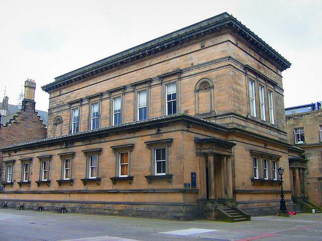 Reid Concert Hall, University Built by Professor John Donaldson in 1859 from a bequest, the building is used both as a lecture theatre and public concert hall. A section at the rear also contains the oldest surviving museum of musical instruments in the world.